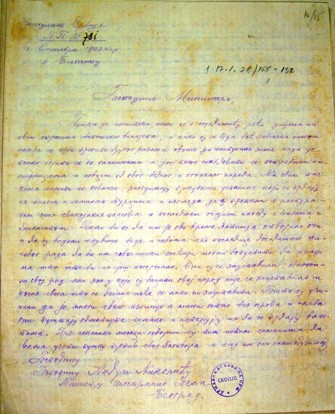 Report about the misery of the population in all places in Vilayet, even in those villages that have not participated in the uprising, as Poreche villages. Villagers are hungry and barefoot, begging from the Consulate to Consulate, to be protected from the Turkish government. (15 October 1903) This media file is produced by Wikipedian in Residence in Category:Wikipedian in Residence at DARM in 2016.